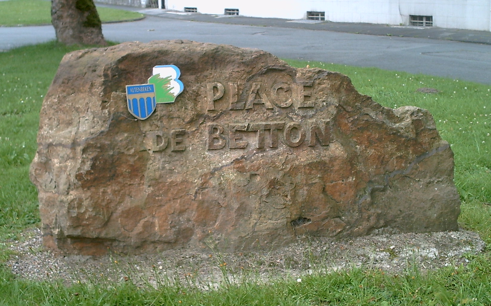 This stone testifies the town twinning between Altenbeken, Germany and Betton, France.